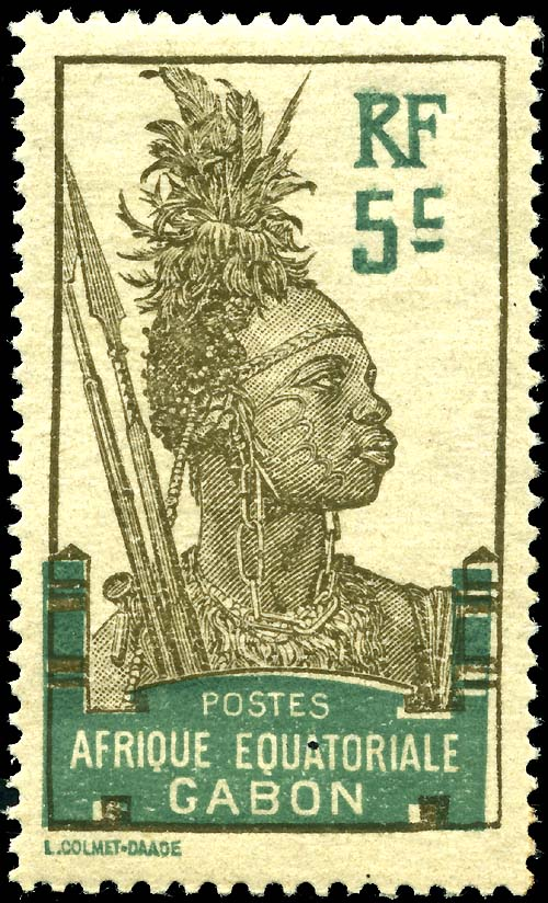 Gabon 5-centime stamp of 1910